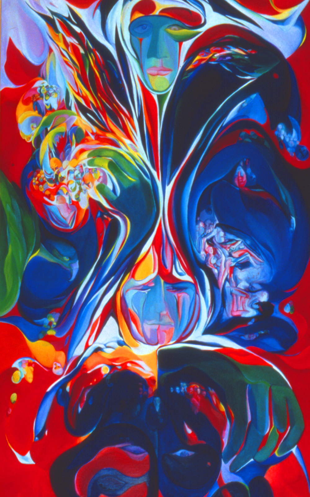 Landscape of Man in the Nuclear Age 2, by Berta Rosenbaum Golahny, oil on canvas, 48" x 30"